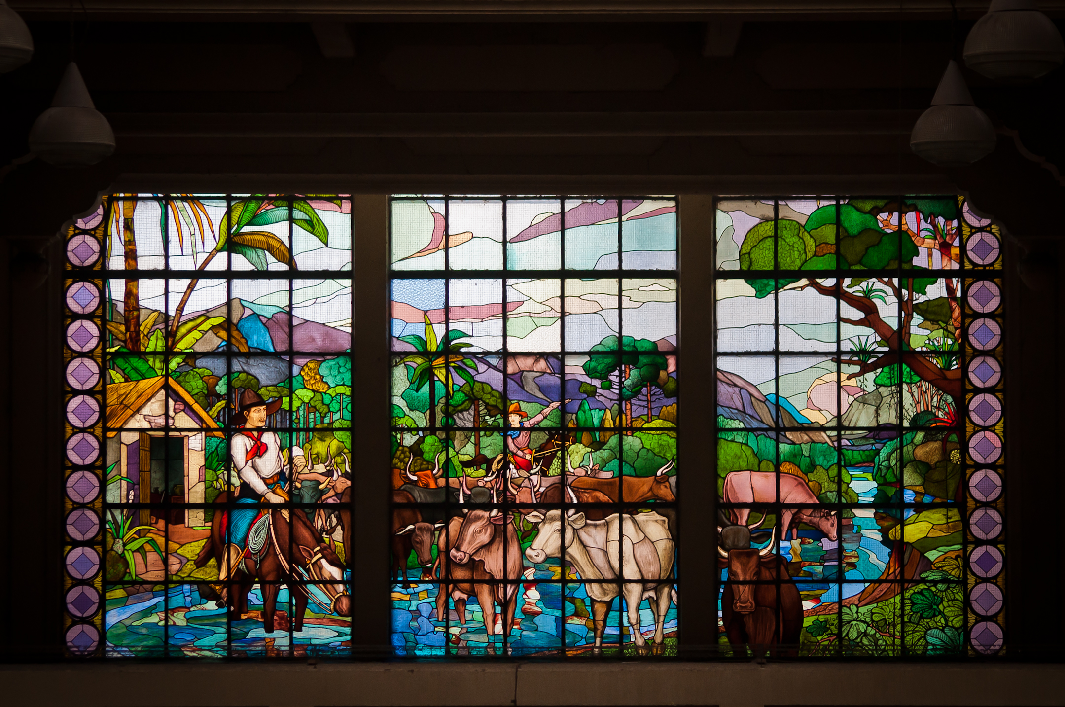 Stained glass made by Conrado Sorgenicht Filho, placed in the Mercado Munipal de São Paulo.